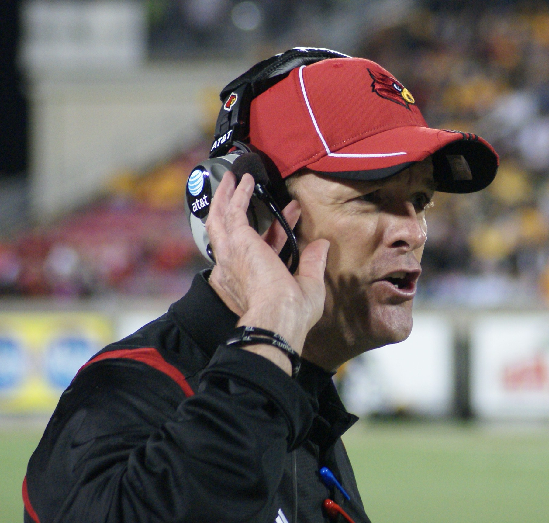 University of Louisville head football coach Steve Kragthorpe at the University of Louisville vs. University of Southern Mississippi football game October 10, 2009.